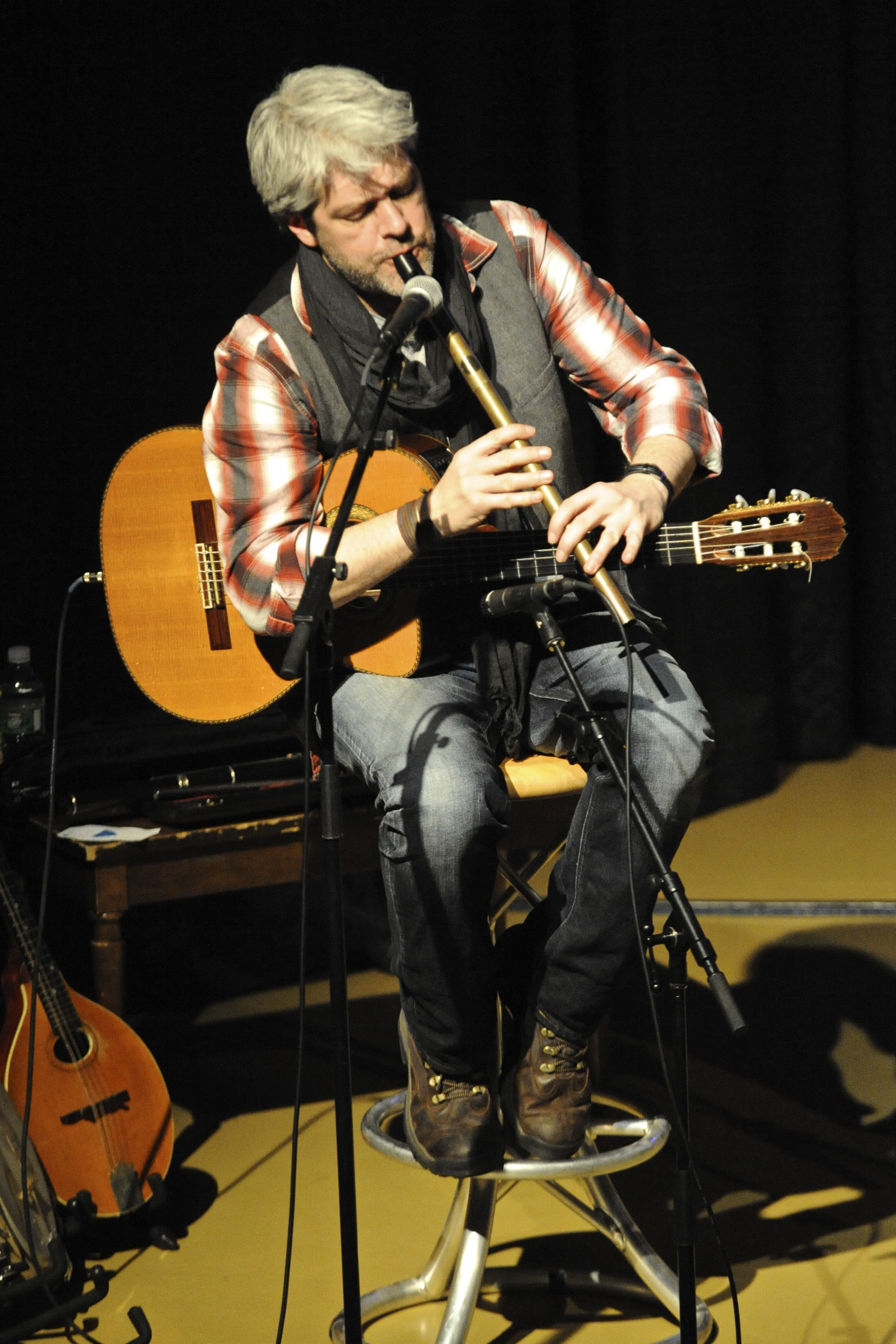 Séamus Egan, multi-intrumentalist, plays with Solas in Healy, Alaska, February 16, 2011.